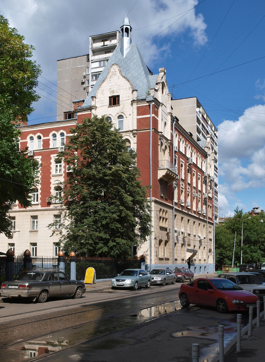 57, Gilarovskogo Street - Solodovnikov Apartments, detail. Built as low income (or even completely free) housing through a private charity. Moscow. 1907-1909. Architects: Ivan Rerberg (design 1st stage), Traugott Bardt (construction management)